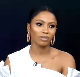 Mercy Eke's interview with Wazobia Max TV in October 2019